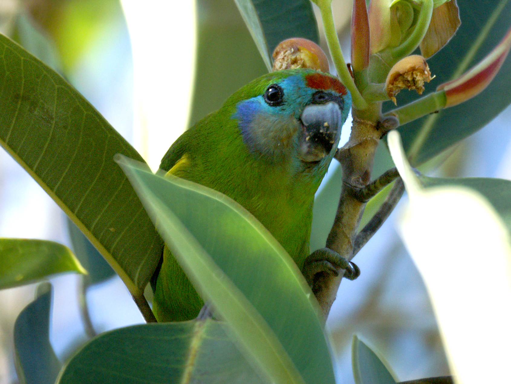 Double-eyed Fig-Parrot (also known as the Blue-faced Fig-Parrot, Red-faced Fig-parrot, Dwarf Fig-Parrot, and the Two-eyed Fig-Parrot) photographed at Cairns, QLD, Australia. This is a female "Red Browed" or "Blue-faced" Fig-Parrot, sub-species Cyclopsitta diophthalma macleayana found in north-east Queensland, south of Cape York (where another sub-species resides).